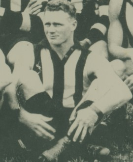 Photograph of Les Angus in 1928